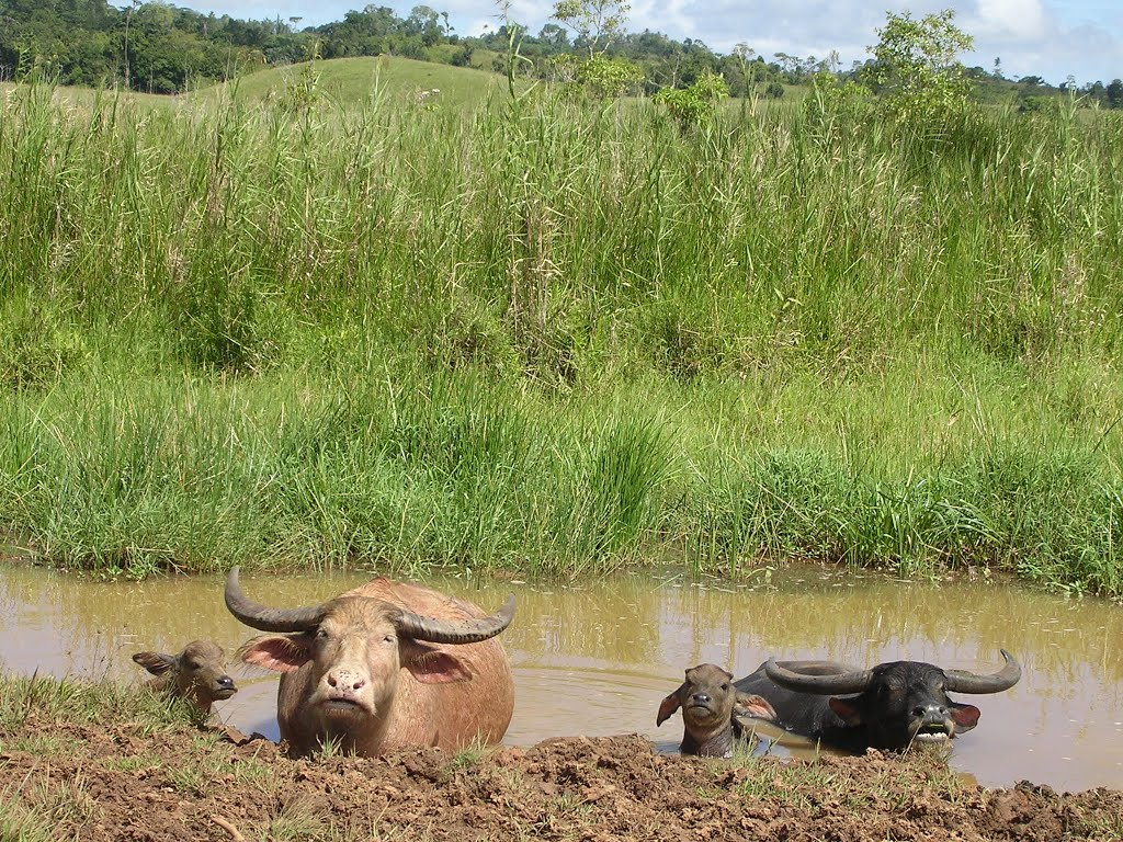 East Timor